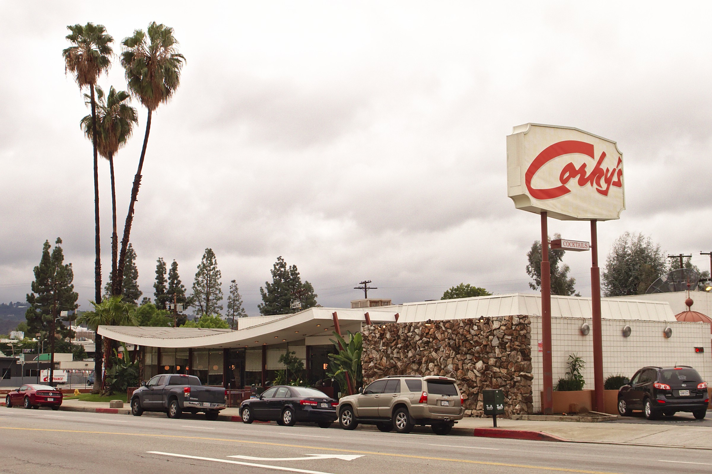 Corky's restaurant on Van Nuys Boulevard in Sherman Oaks, Los Angeles, California, viewed from the northeast. It was designed by Armet & Davis and built in 1958.